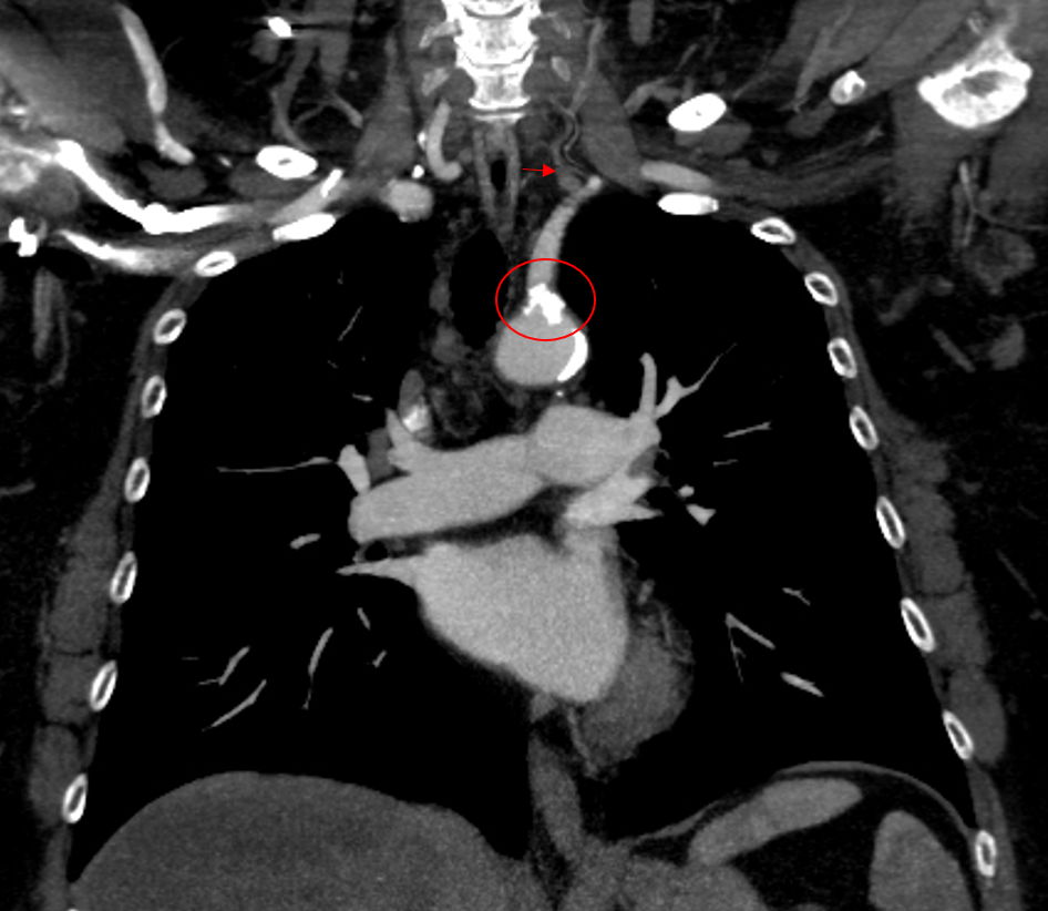 Chest CT with subclavian artery plaque (red circle) and no contrast in left vertebral artery suggesting reversal of flow.